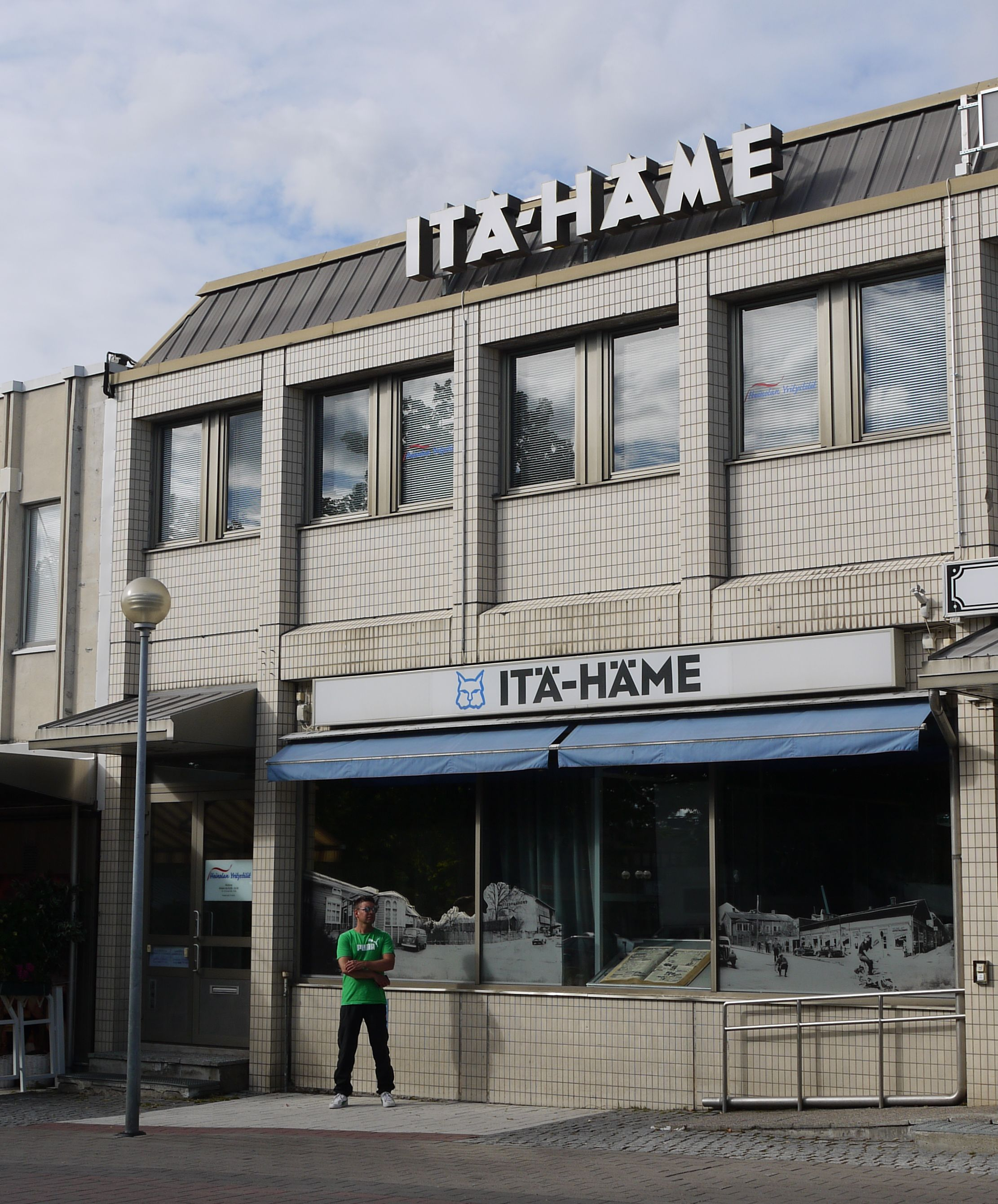 Office building of the local newspaper Itä-Häme in Heinola.